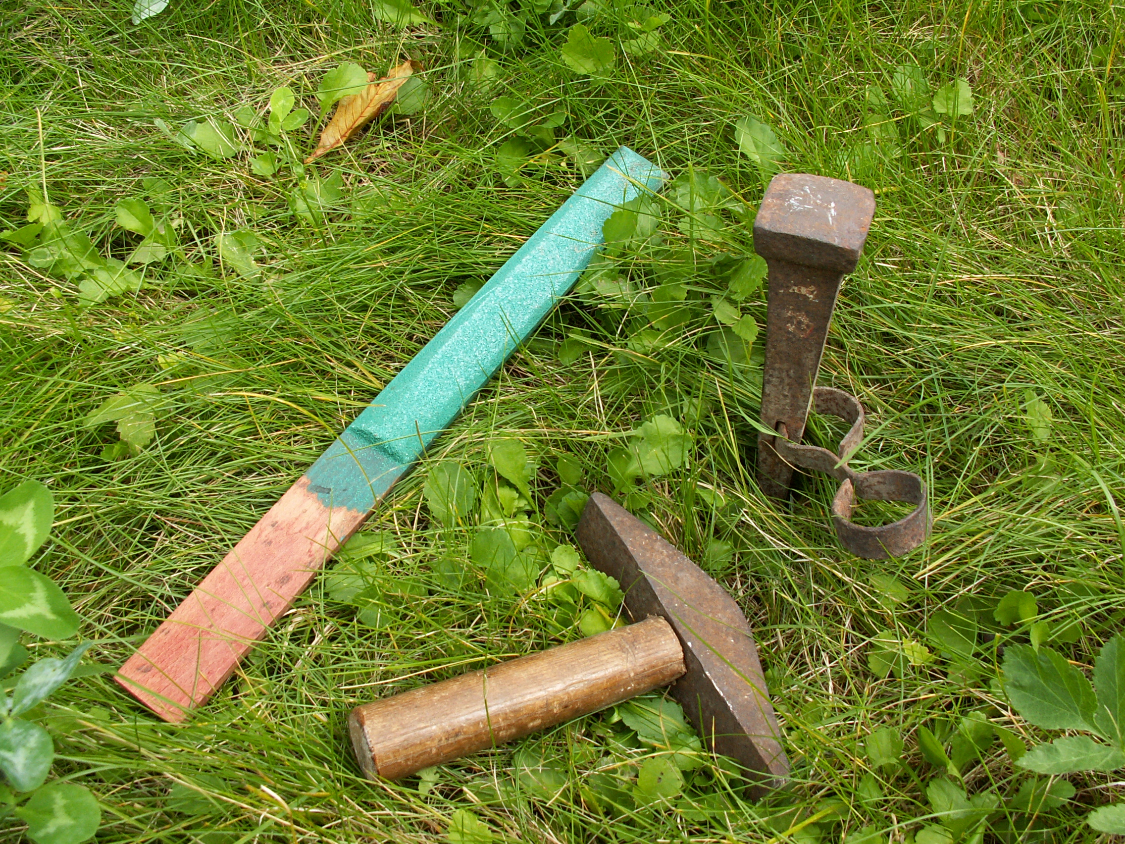 Scythians, Dengelamboss and Dengelhammer